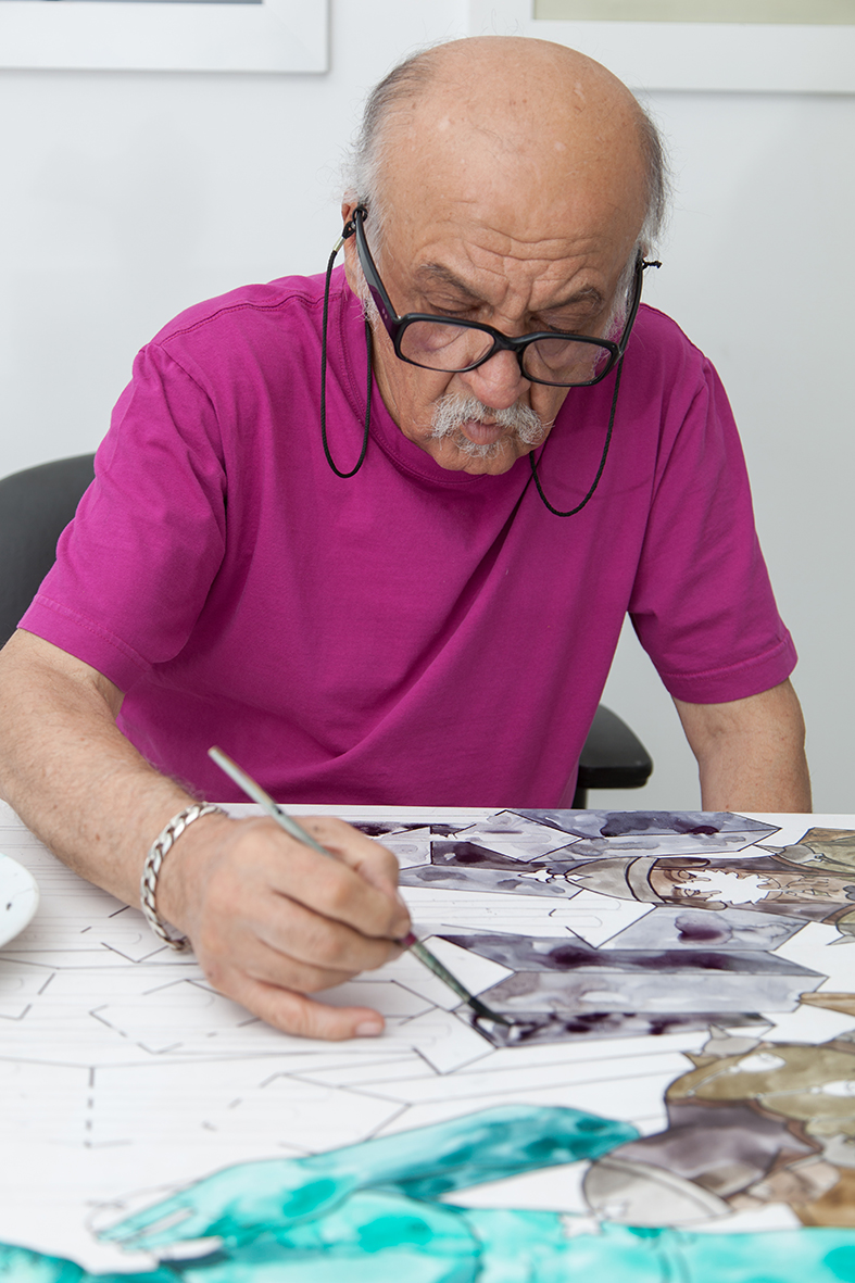 Ali Akbar Sadeghi In his Studio